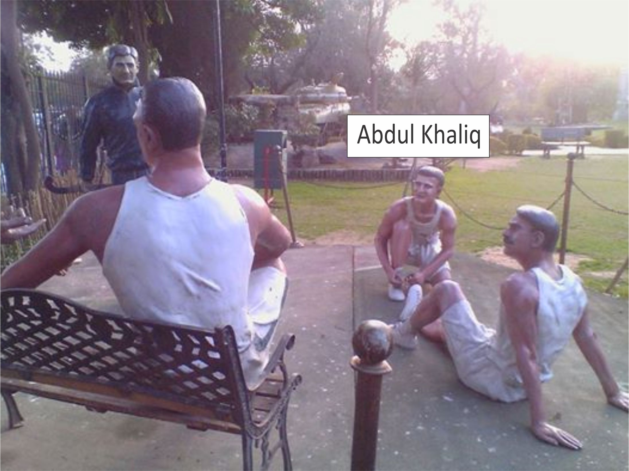 Abdul Khaliq (athlete)